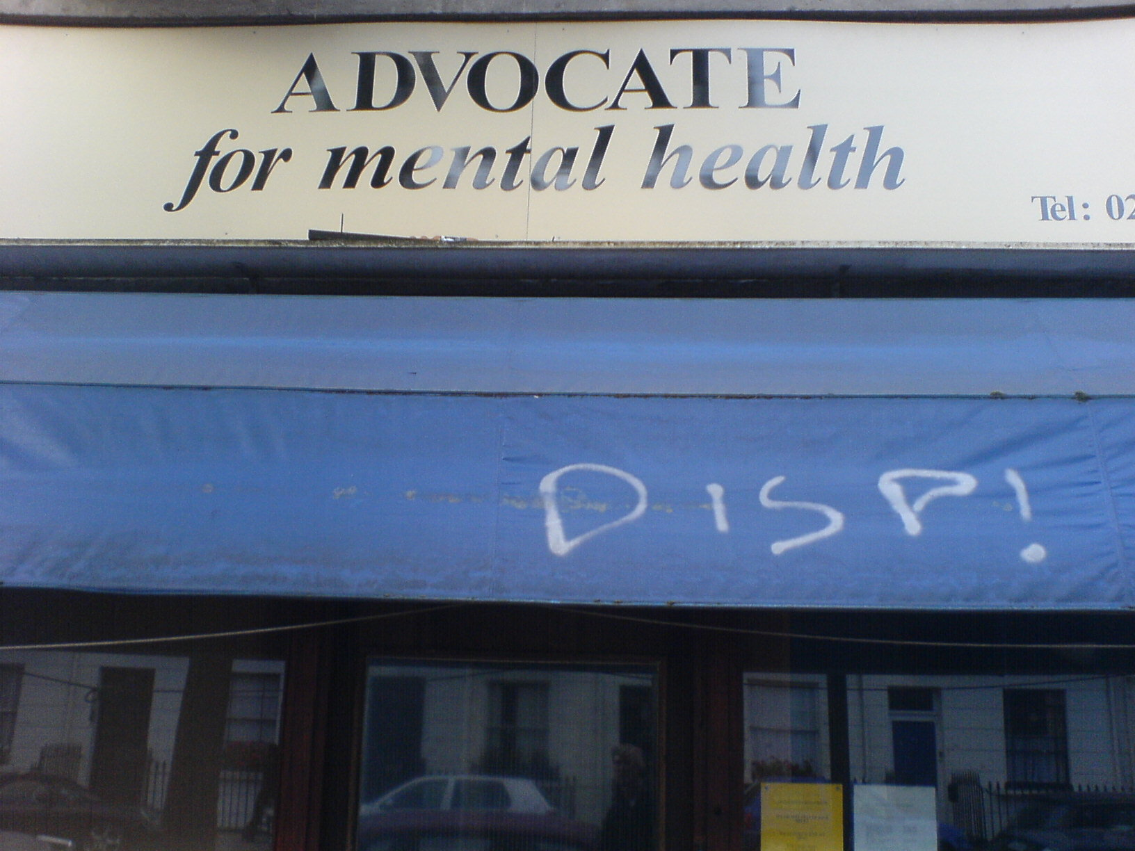 No uploader comments on Flickr.